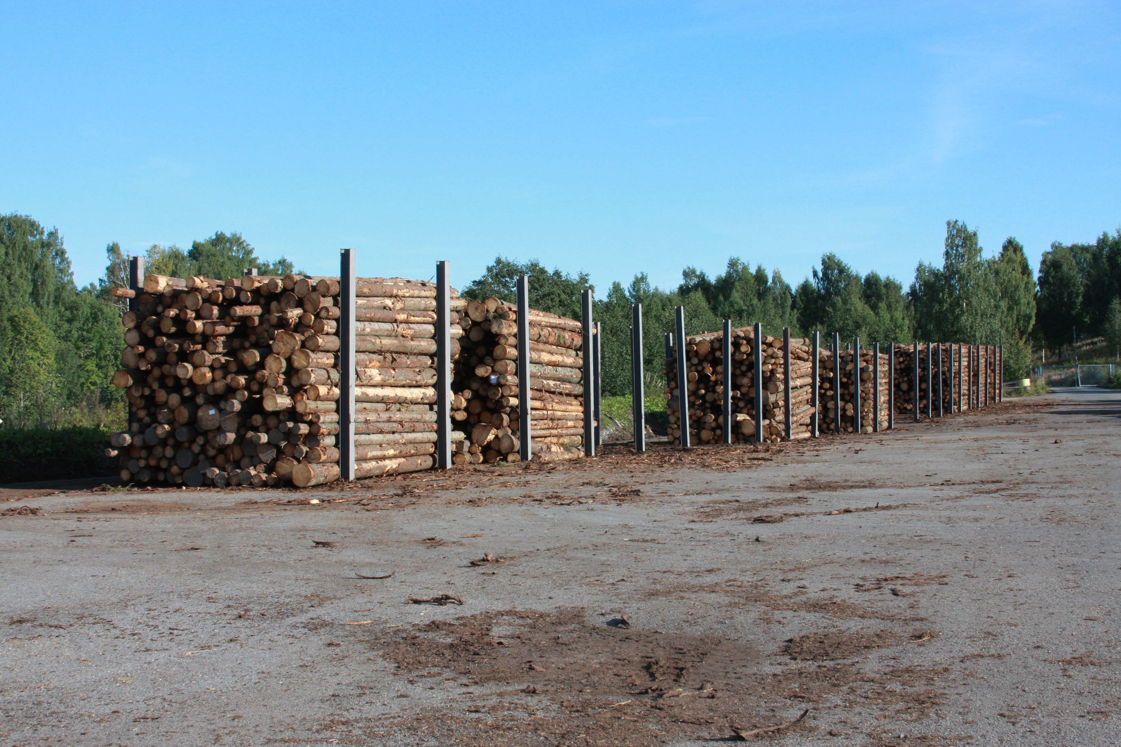 Wood processing industry at Fossum bordering Oslo, in the municipality of Bærum - Norway